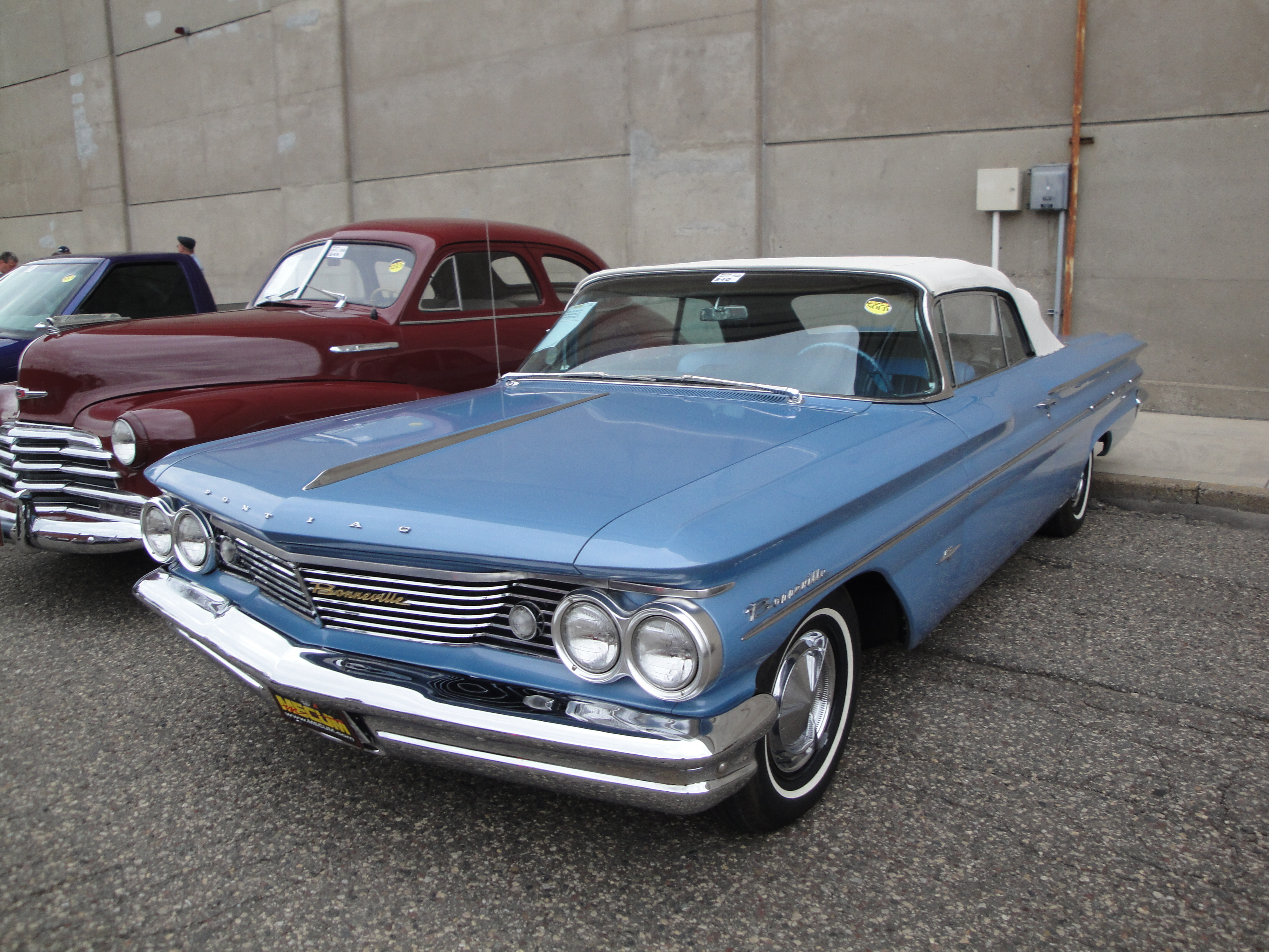 DESCRIPTION - Power steering - Power brakes - Power windows - Power top - New carpet - 389 V8 Minnesota Street Rod Association 39th Annual "Back to the Fifties" June 2012 Minnesota State Fairgrounds St. Paul MN